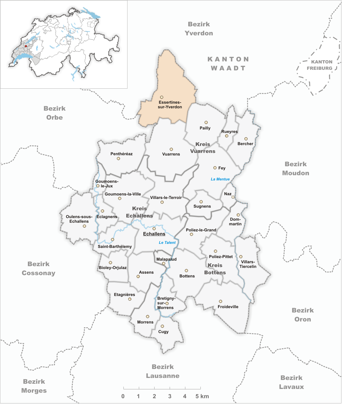 Municipality Essertines-sur-Yverdon